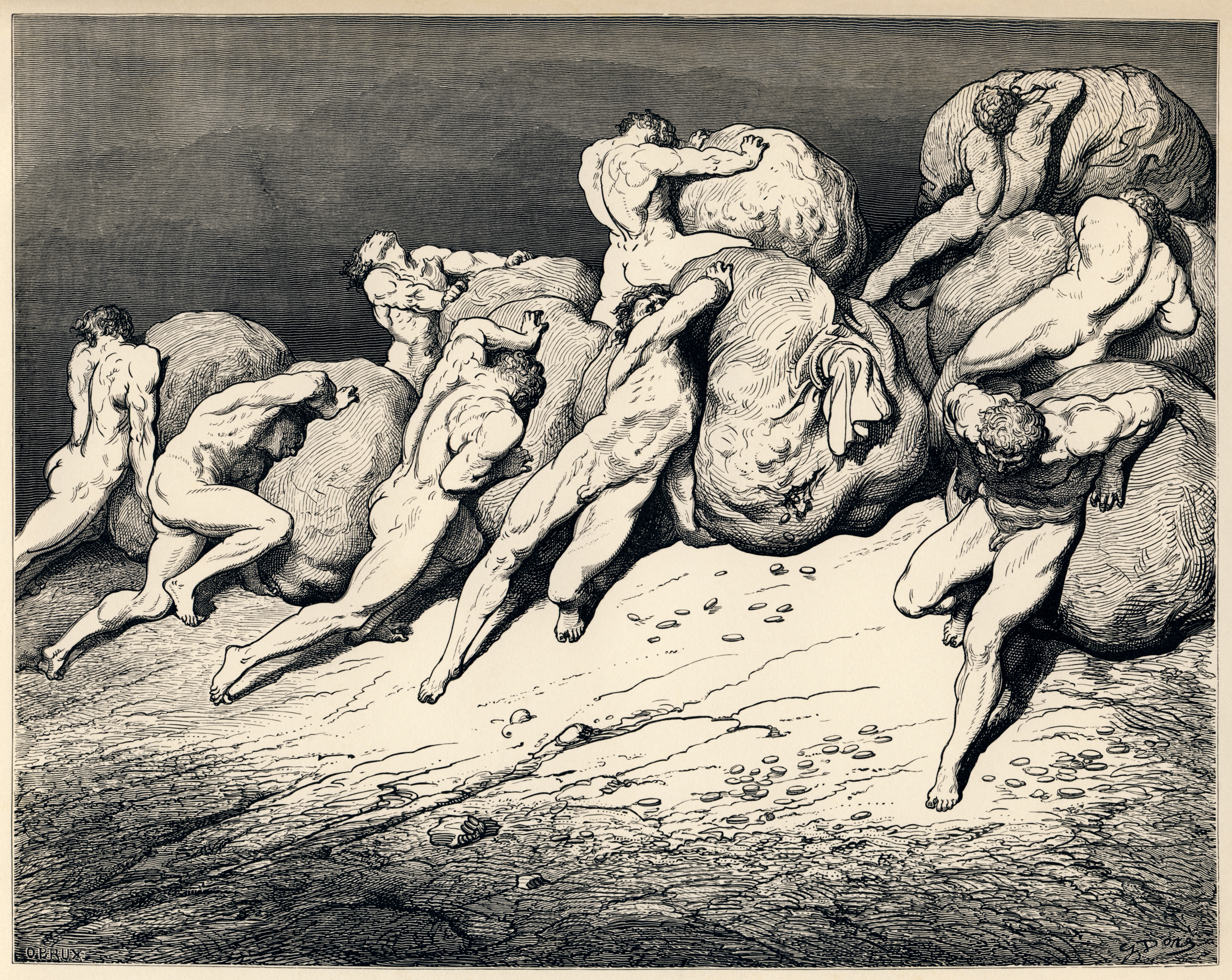 Gustave Doré's illustration to Dante's Inferno. Plate XXII: Canto VII: The hoarders and wasters. "For all the gold that is beneath the moon, / Or ever has been, of these weary souls / Could never make a single one repose" (Longfellow's translation) "Not all the gold that is beneath the moon / Or ever hath been, or these toil-worn souls / Might ever purchase rest for one" (Cary's translation)